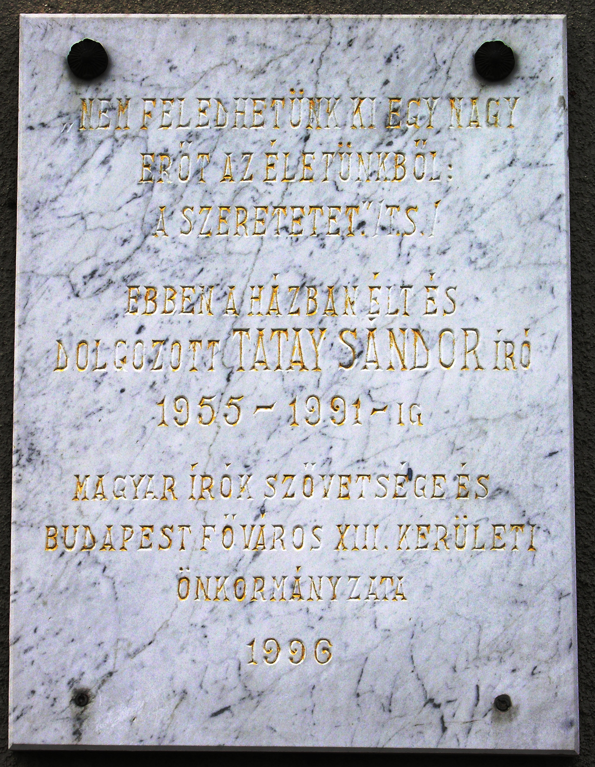 Commemorative plaque of Sándor Tatay in Budapest District XIII, Gyöngyösi Street No 53